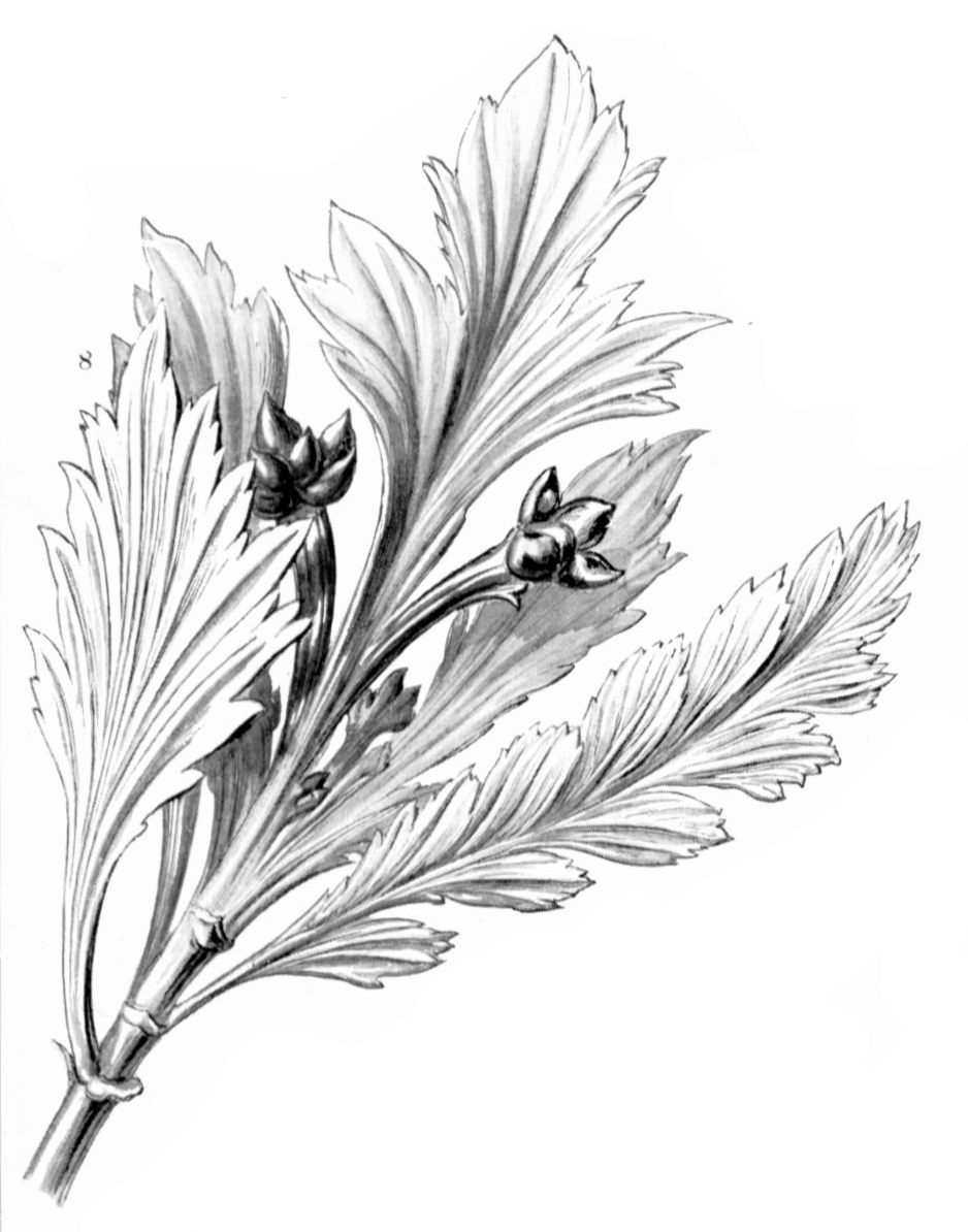 Phyllocladus aspleniifolius drawing This is a retouched picture, which means that it has been digitally altered from its original version. Modifications: Crop from original. The original can be viewed here: Haeckel Coniferae.jpg: . Modifications made by MPF. Uploaded with derivativeFX